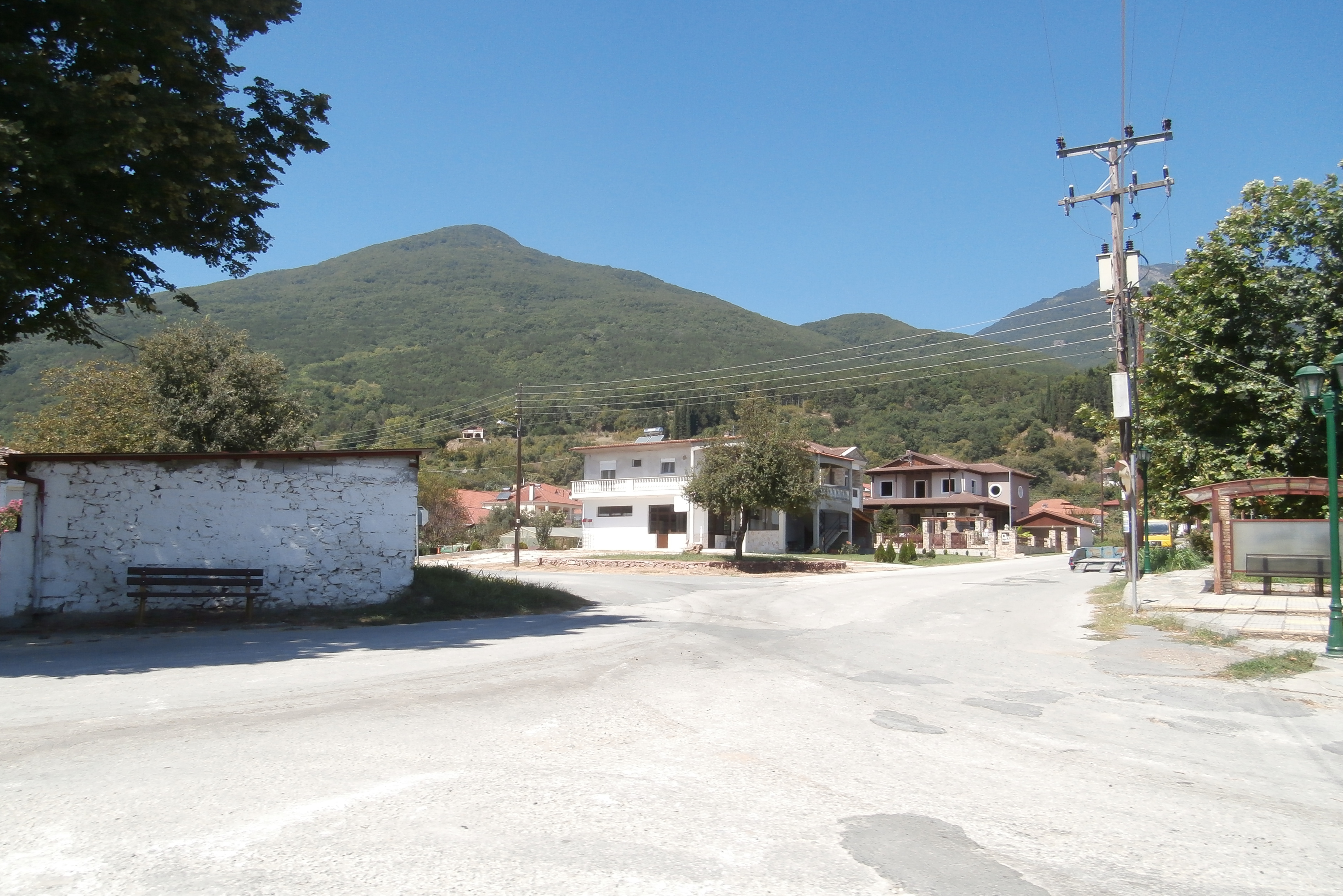 View of a street in Lycostomo, Almopia.